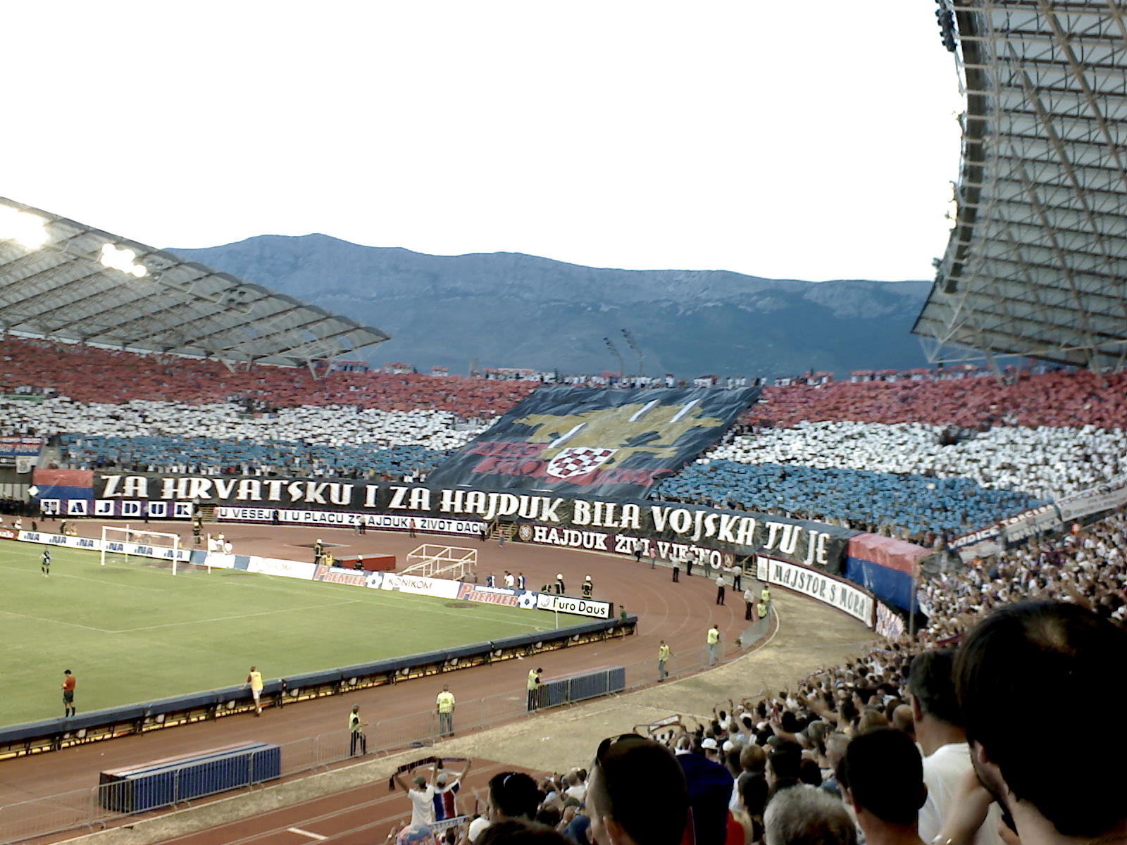 HNK Hajduk Split - FK Budućnost Podgorica, UEFA Cup, 2nd august 2007. Hajduk's fan club Torcida salutes to 4th Guard Brigade of Croatian Army